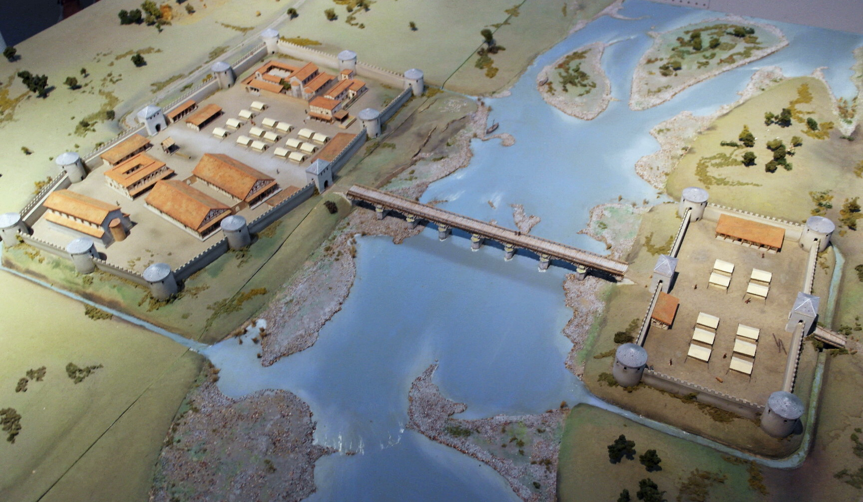 Maastricht, the Netherlands. Scale model of Maastricht in the late-Roman period, after the construction of the castrum (313). The 1992 model by F. Schiffeleers is partly based on archaeological excavations (bridge, roads and castrum left bank), partly on extrapolation (Wyck castrum, some buildings). Photographed in Centre Céramique, November 2014.